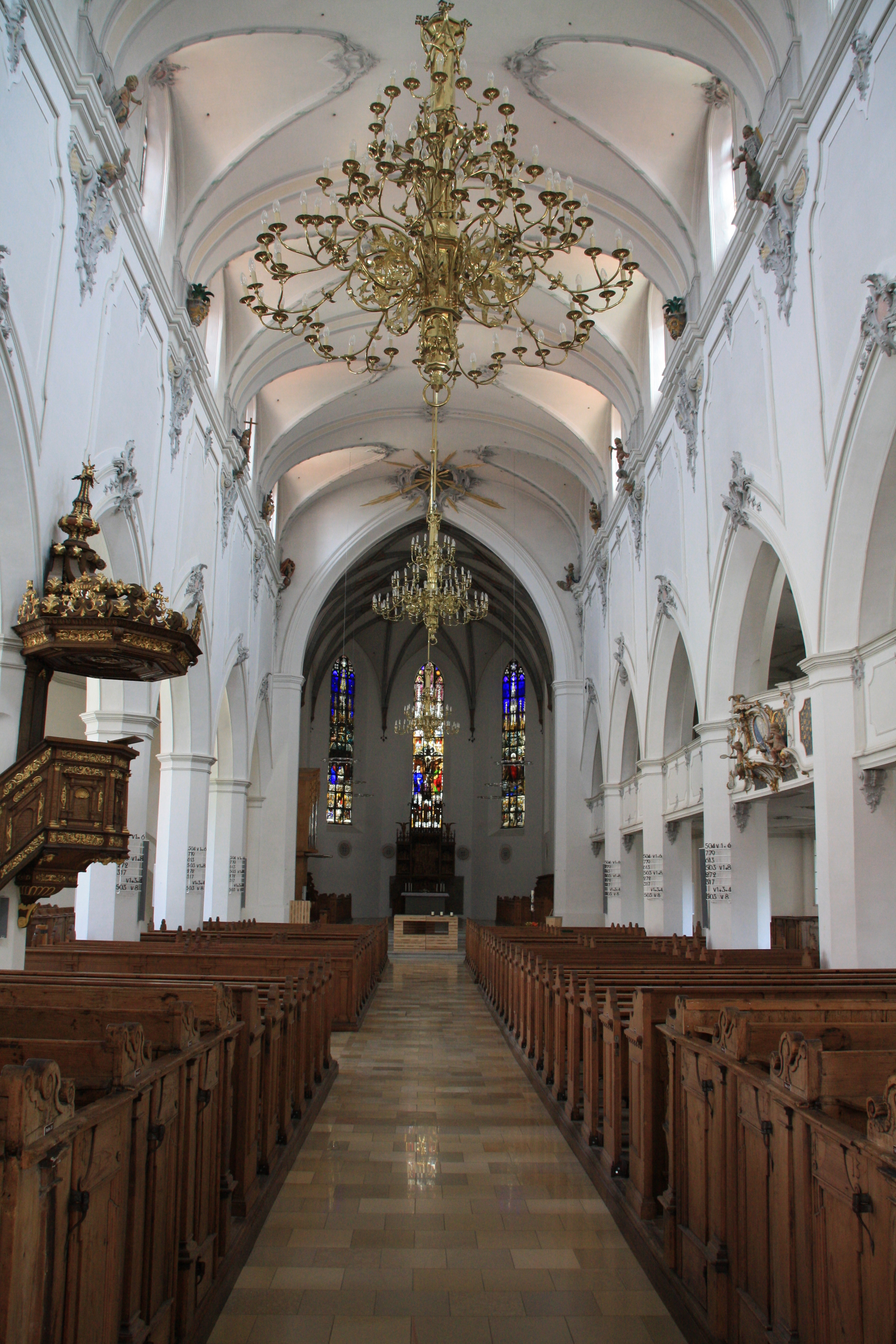 Shows the St. Mang in Kempten, inside.